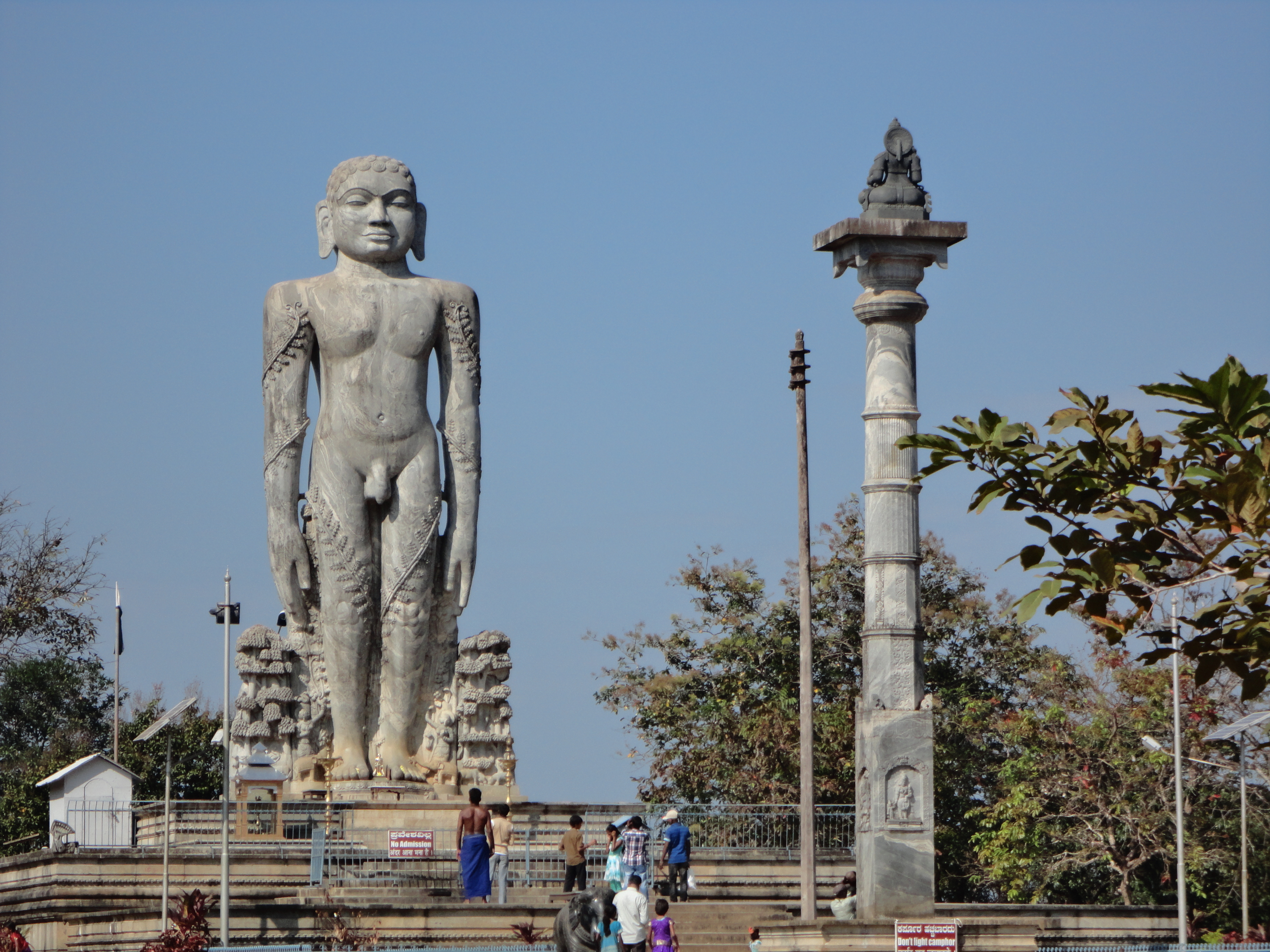 A 39-foot (12 m) high statue with a 13-foot (4.0 m) pedestal that weighs about 175 t (175,000 kg) is installed at Dharmasthala in Karnataka built in 1973.